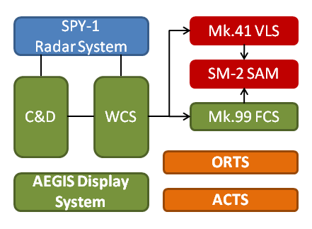 The basic configuration of the AEGIS weapon system Mk.7 (baseline 2-6).